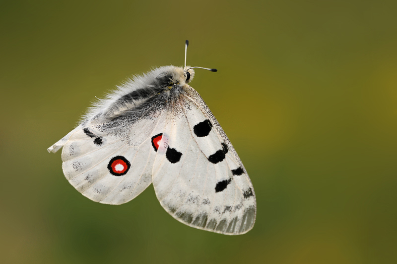 Apollo (Parnassius apollo). Oltu - Erzurum, Turkey.